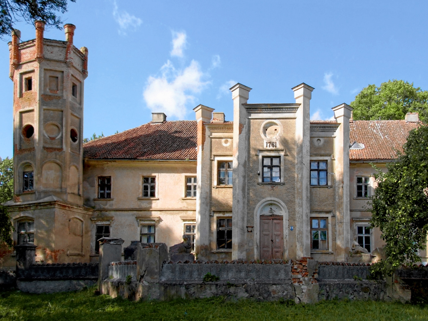 Šķēde Manor (Latvian: Šķēdes muižas pils) is a manor house in the historical region of Zemgale, in Latvia. It was completed in 1761 and rebuilt in the 19th century in the Gothic Revival style. During the Second World War, it served as a German army hospital.